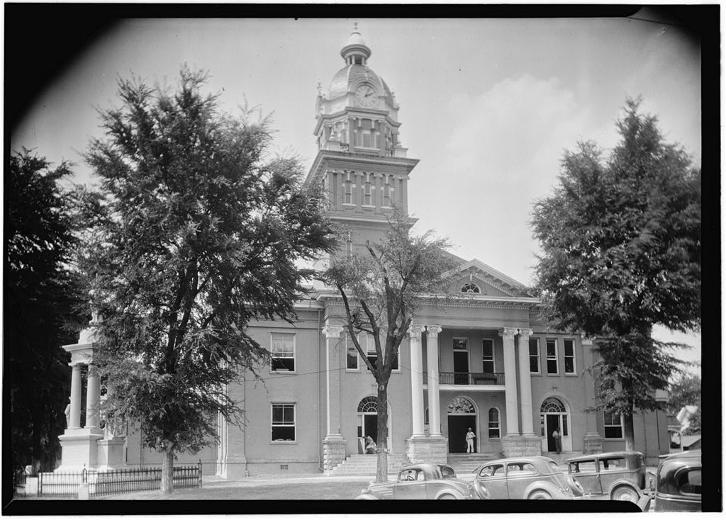 1933 photograph of the Lowndes County Courthouse in Columbus, Mississippi (USA).